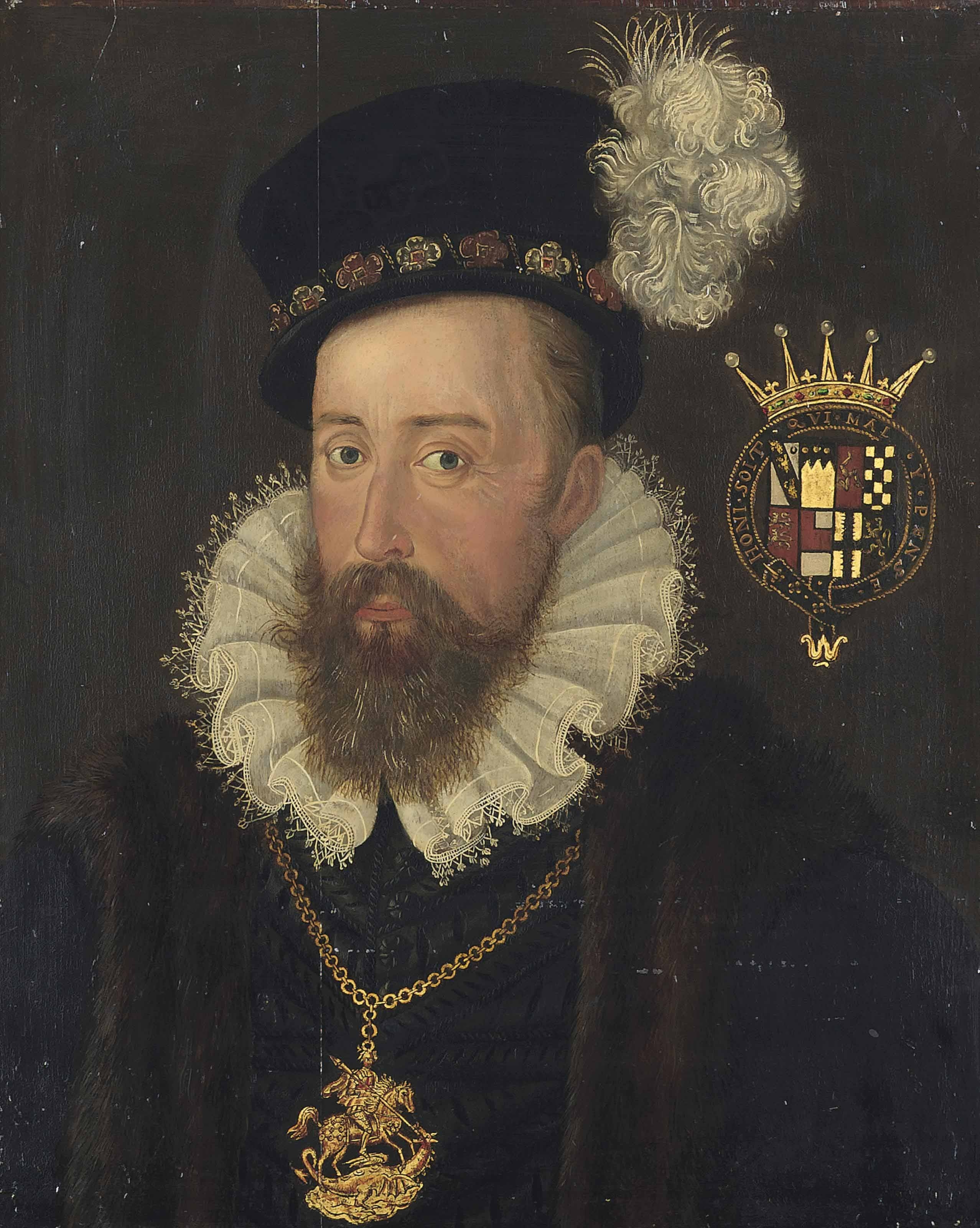 Portrait of Henry Stanley, 4th Earl of Derby, K.G. (1531-1593) wearing the Greater George of the Order of the Garter.